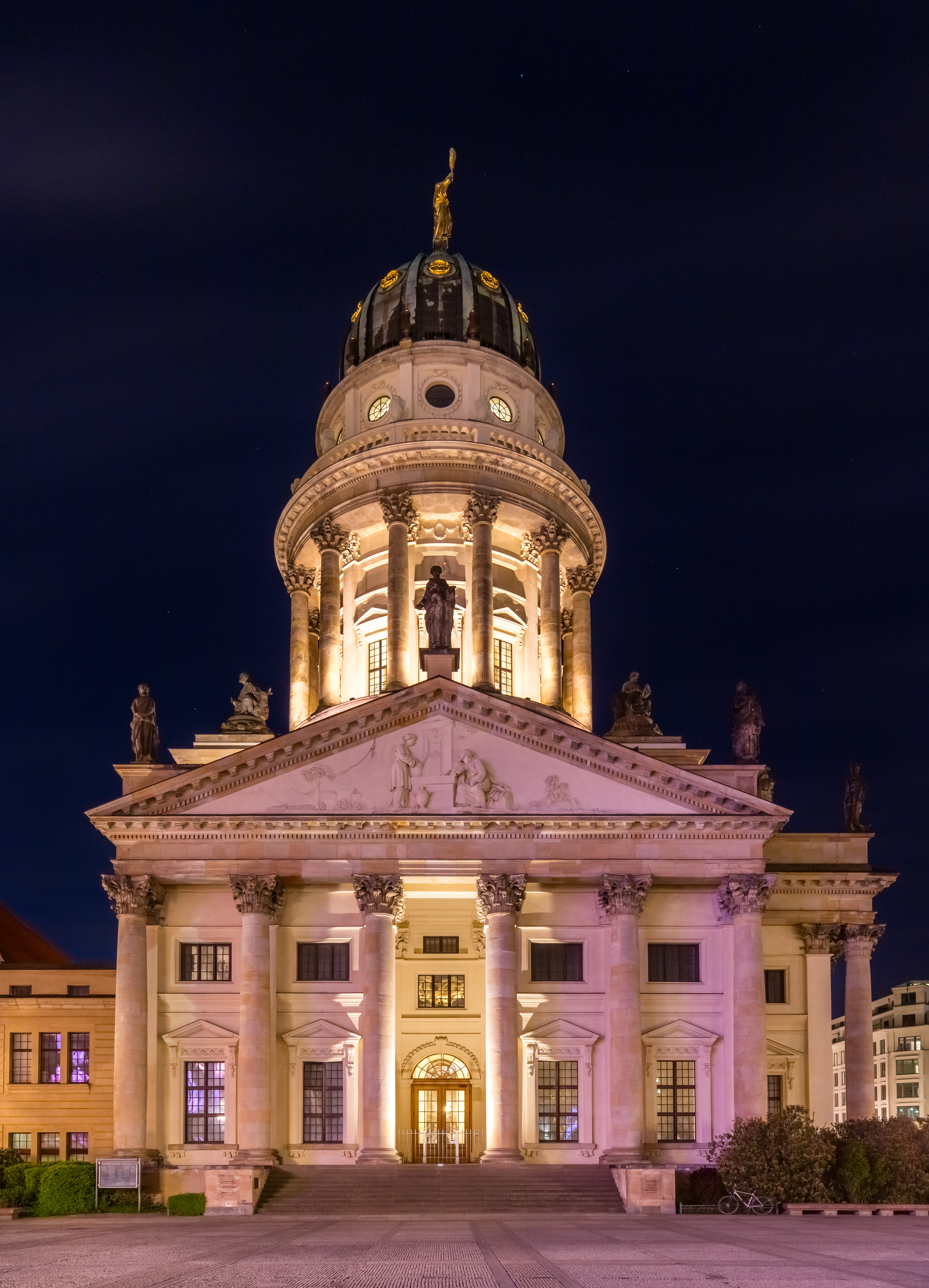 French Cathedral, Berlin, Germany